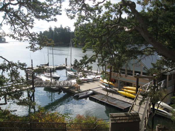 Vista del porticciolo privato del Pearson College